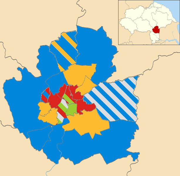 Map showing the makeup of York City Council as of 10/11/2017.